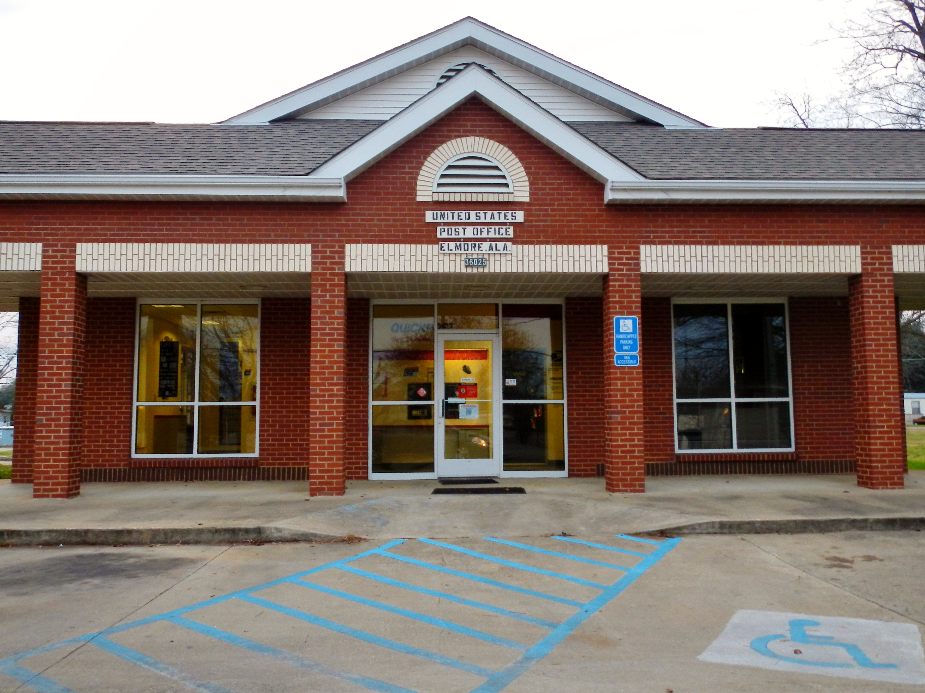 This is a photograph of the post office in Elmore, Alabama.